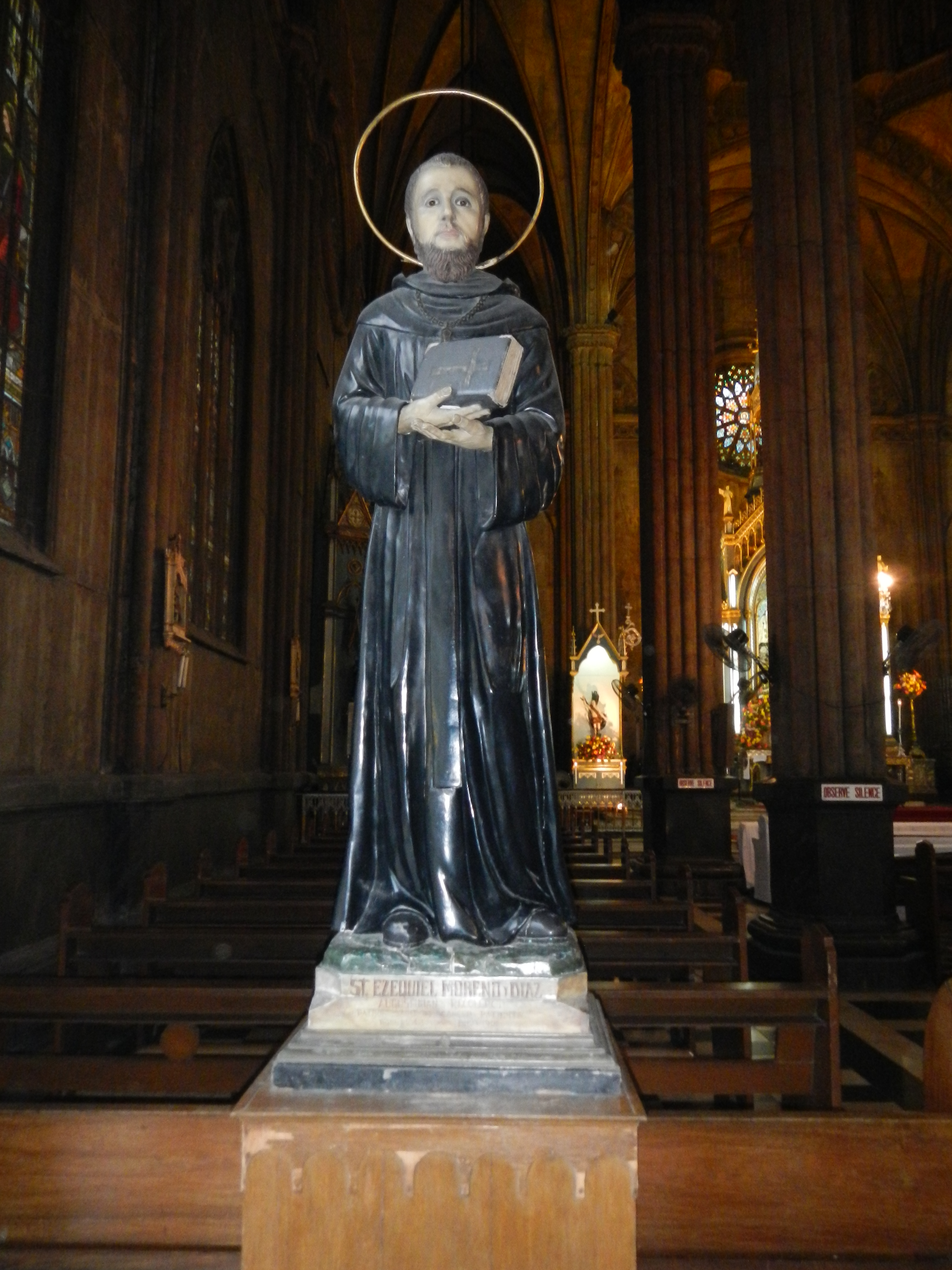 Saint Ezequiel Moreno at the San Sebastian Basilica in Manila, Philippines.